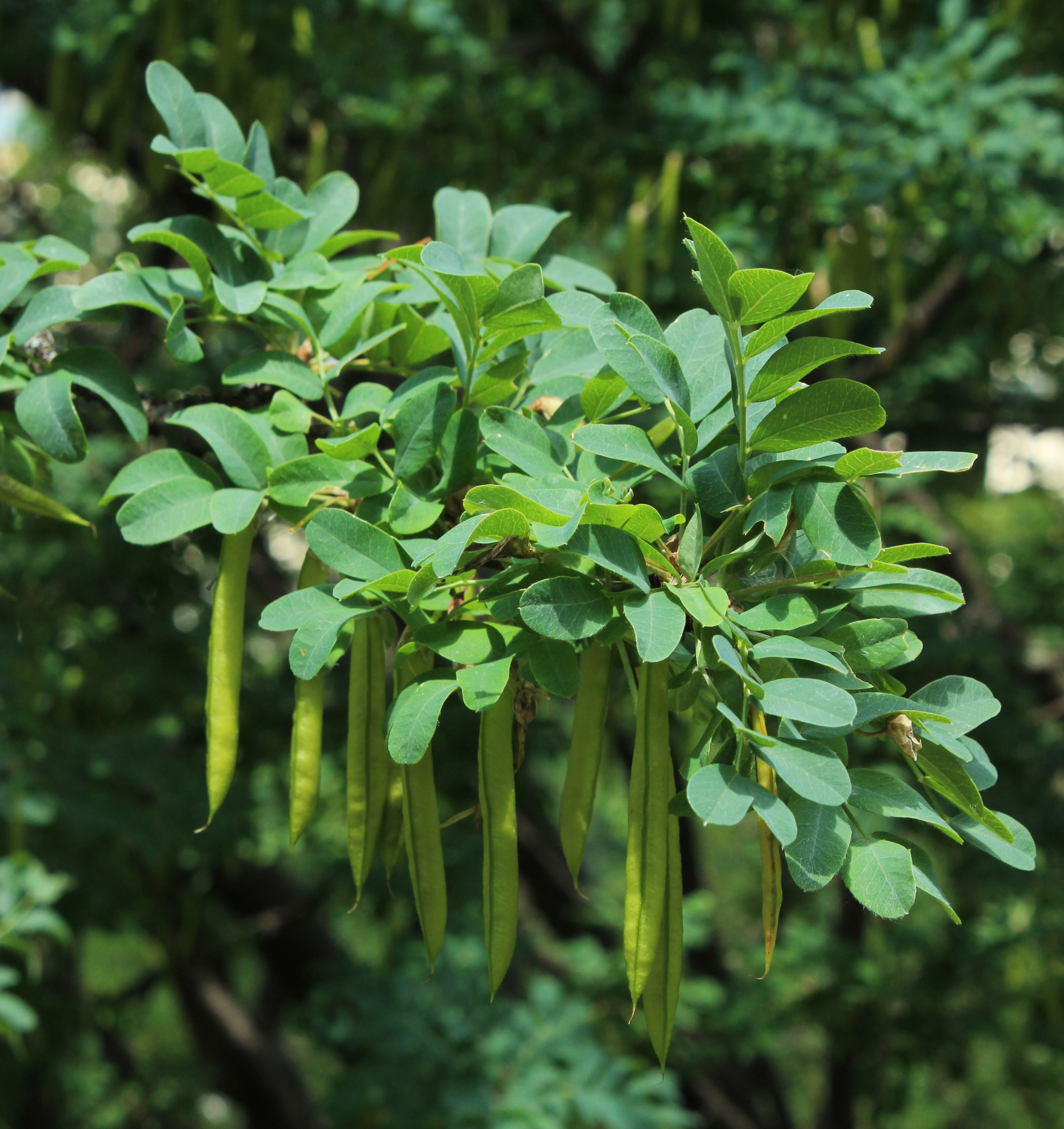 Caragana arborescens in the Botanical Garden of the University of Vienna. Identified by sign.